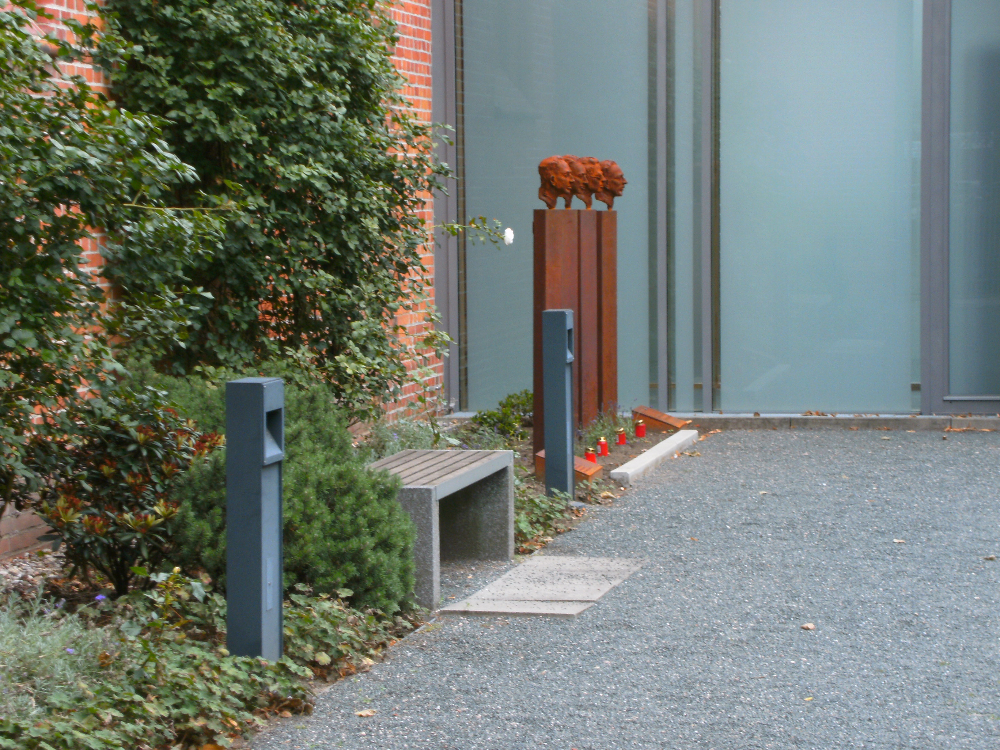 Hamburg, St. Marien-Dom, Cemetery for canons: Memorial with the four heads of beheaded Lübeck martyrs in iron on four steles by sculptor Karlheinz Oswald.